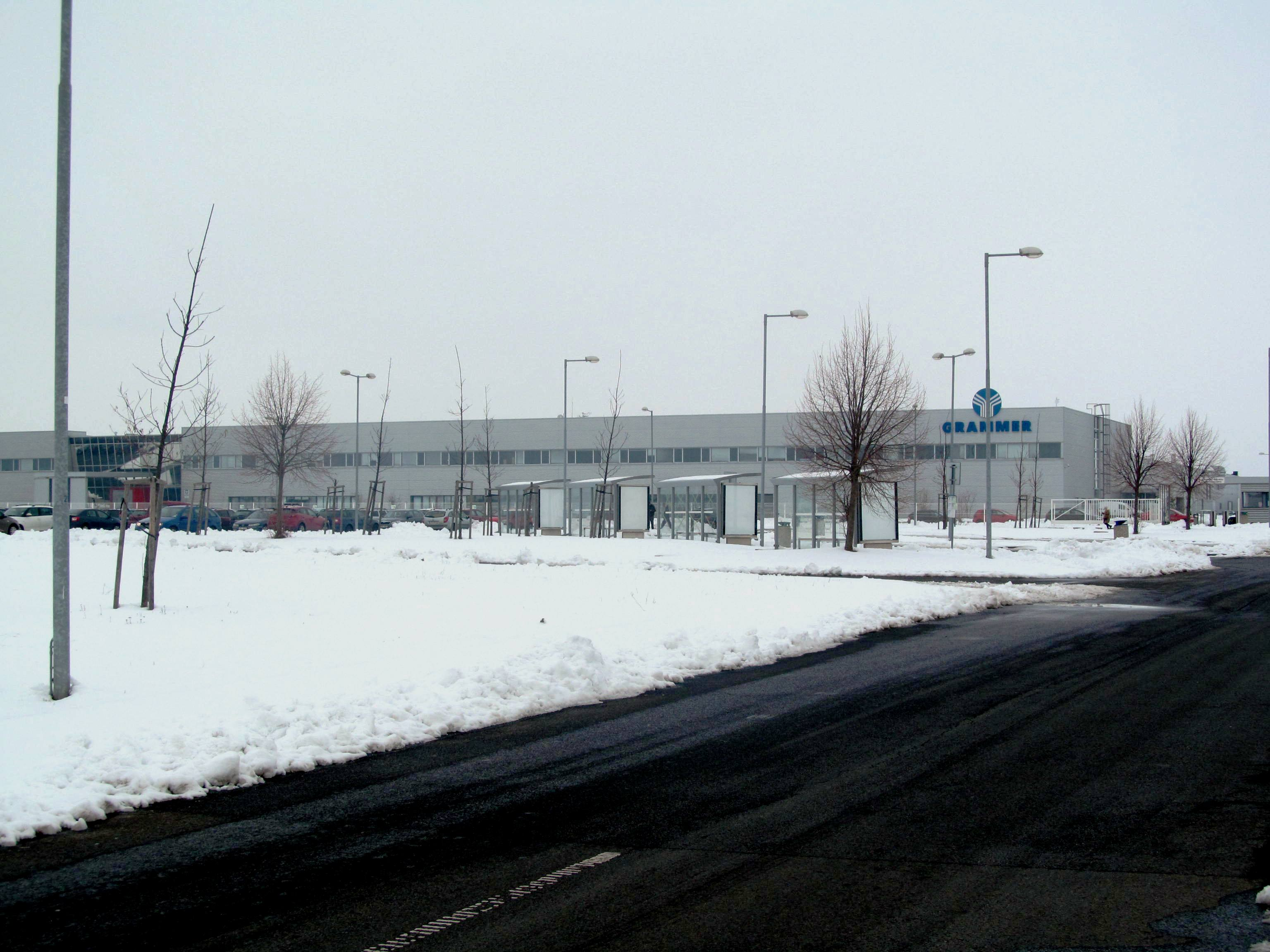 Industrial zone Triangle by Staňkovice